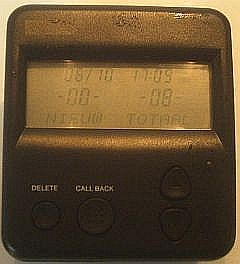 Caller ID